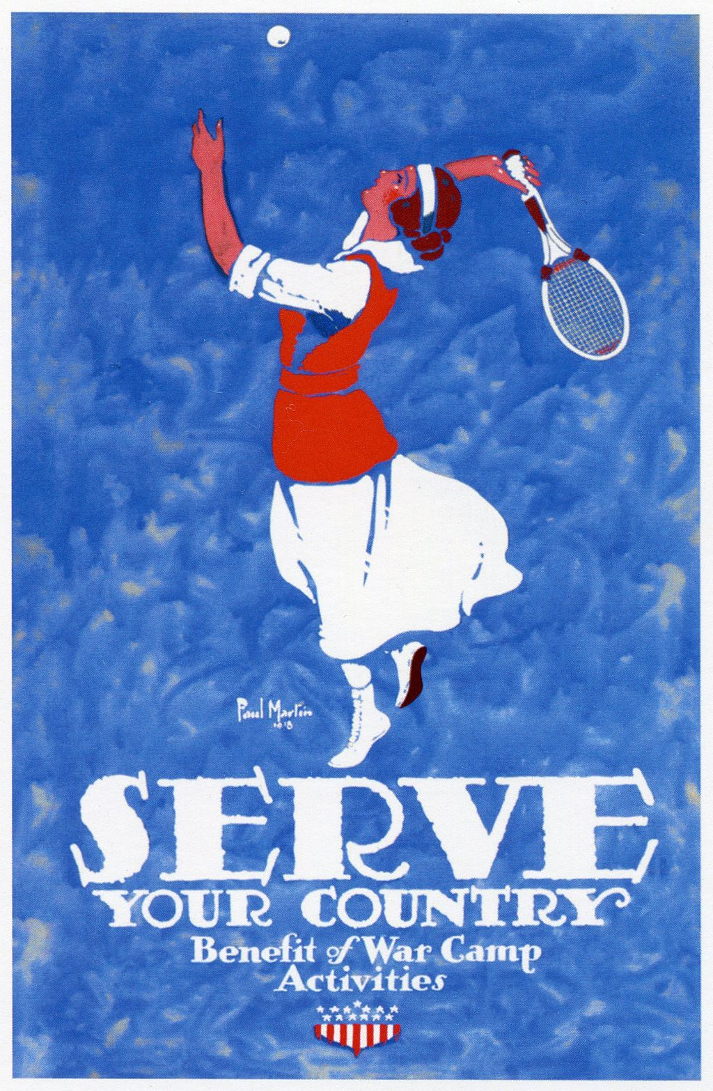 Silkscreen poster titled, "Serve Your Country: Benefit of War Camp Activities." The artist purposely left a few areas untouched.